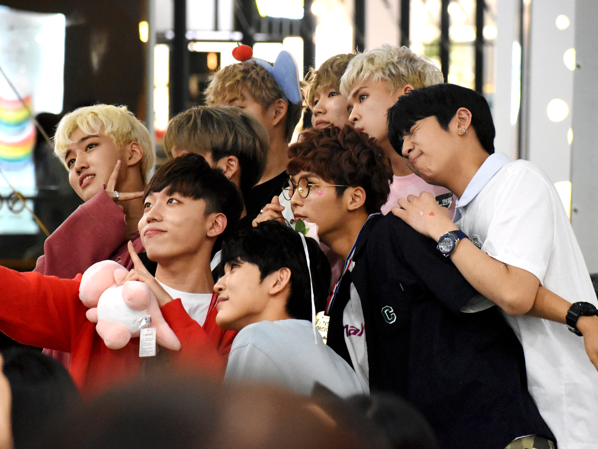 D-Crunch at a fansign event at the Gimpo International Airport branch Lotte Mall on August 18, 2018.